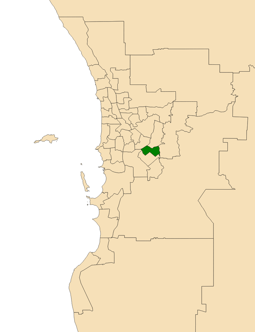 Location of the electoral district of Thornlie in the Perth metropolitan area, Western Australia as of the 2017 WA state election.